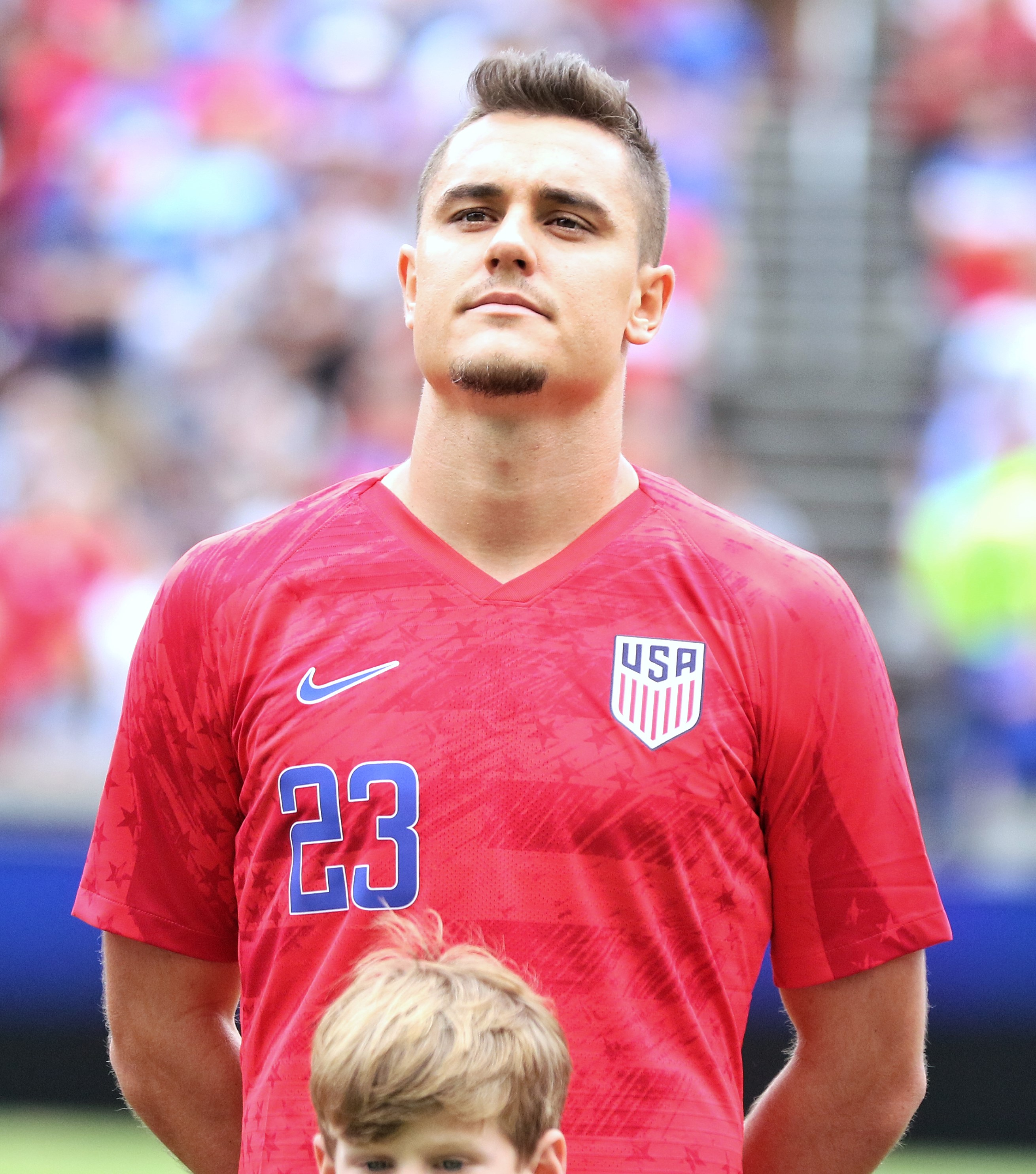 Aaron Long representing the United States men's national soccer team on June 9, 2019